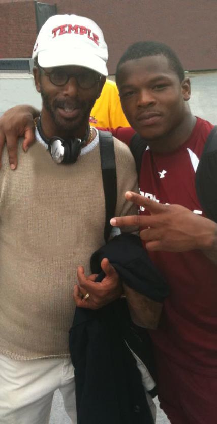 Temple University running back Matt Brown (right) with his dad (eft} after a win over the Maryland Terps